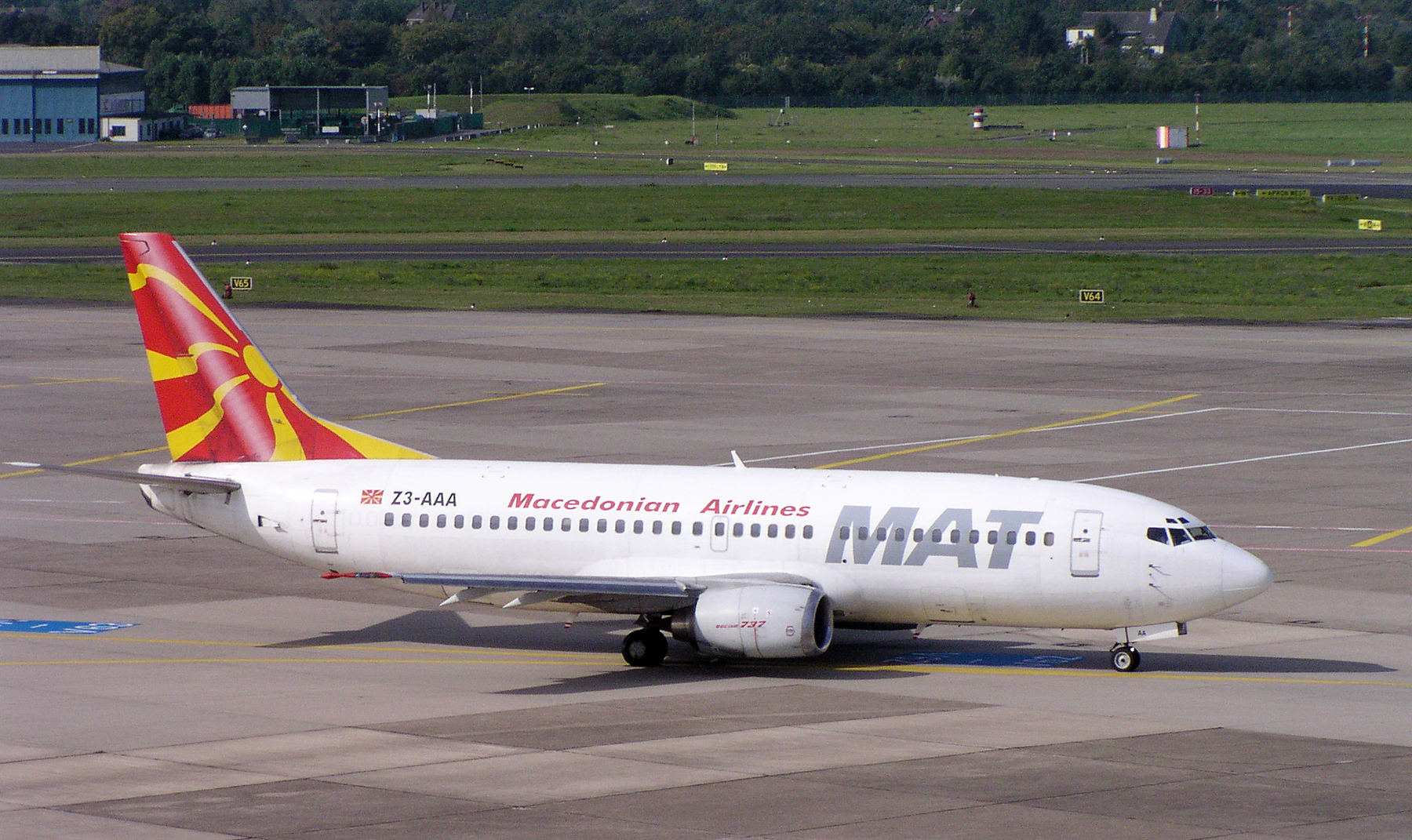 Description: MAT Macedonian Airlines Boeing 737-300 in Düsseldorf, 8. September 2004. Photographer: Arcturus Licence: GFDL + cc-by-sa-2.0-de